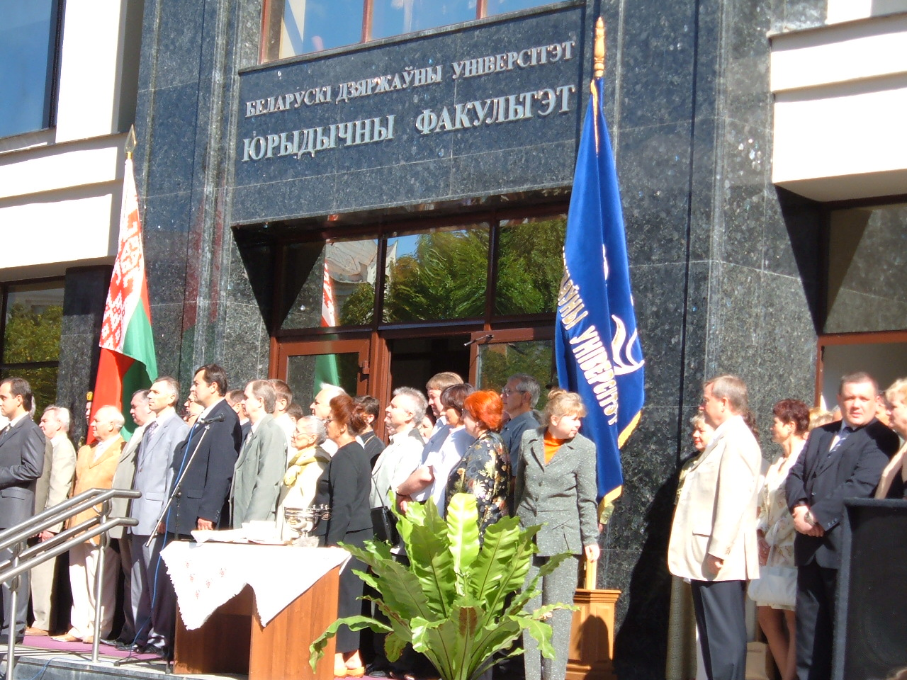 Belarusian State University, unveiling of the new building of faculty of law.